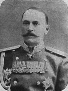 Sivers, Faddey Vasilyevich